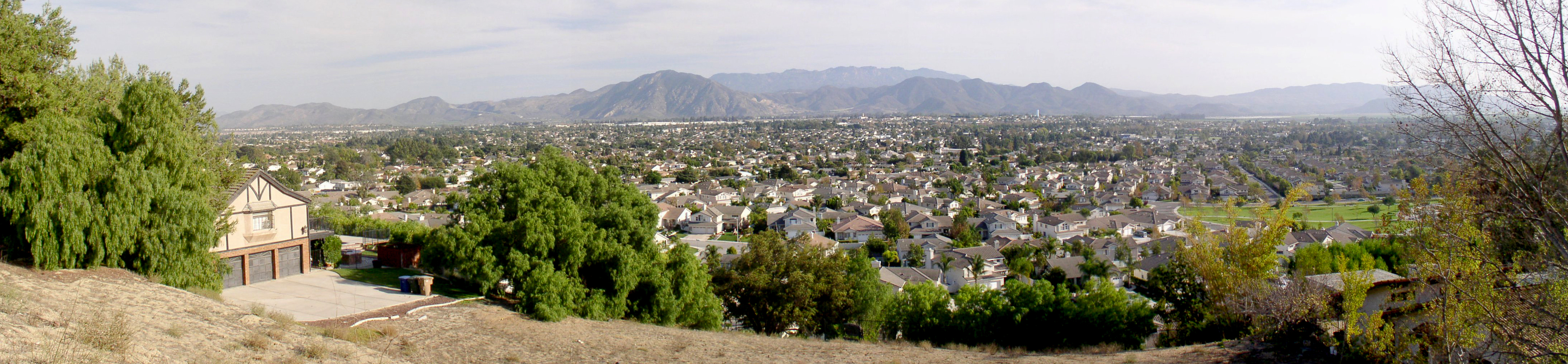 Panoramic image of Camarillo, California looking southeast taken from a hillside on the northwestern part of the city near Estaban Drive.